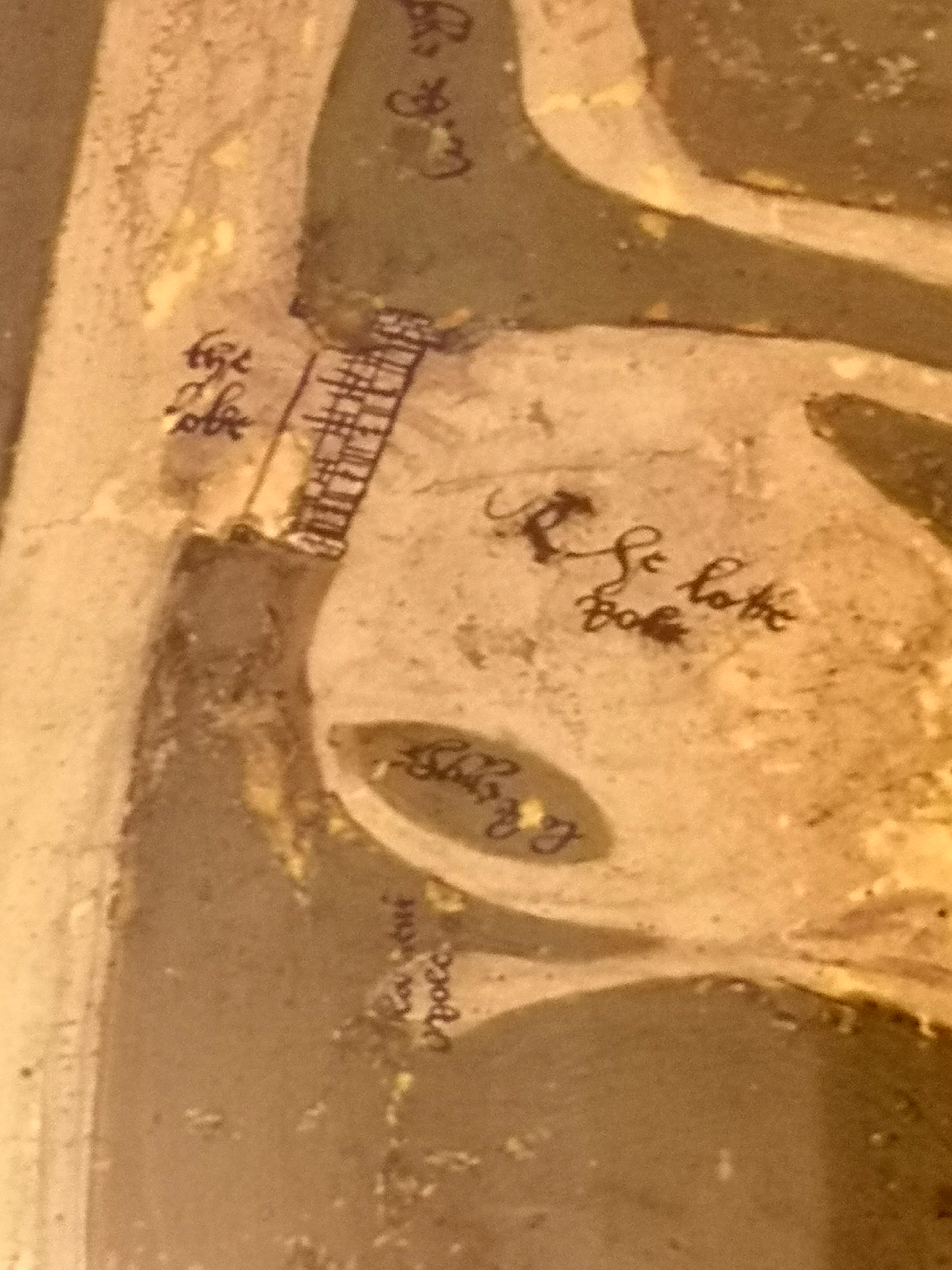 Photograph of part of 16th century Abingdon Monks' Map which shows a representation of Abingdon Lock with the paddles of a flash lock